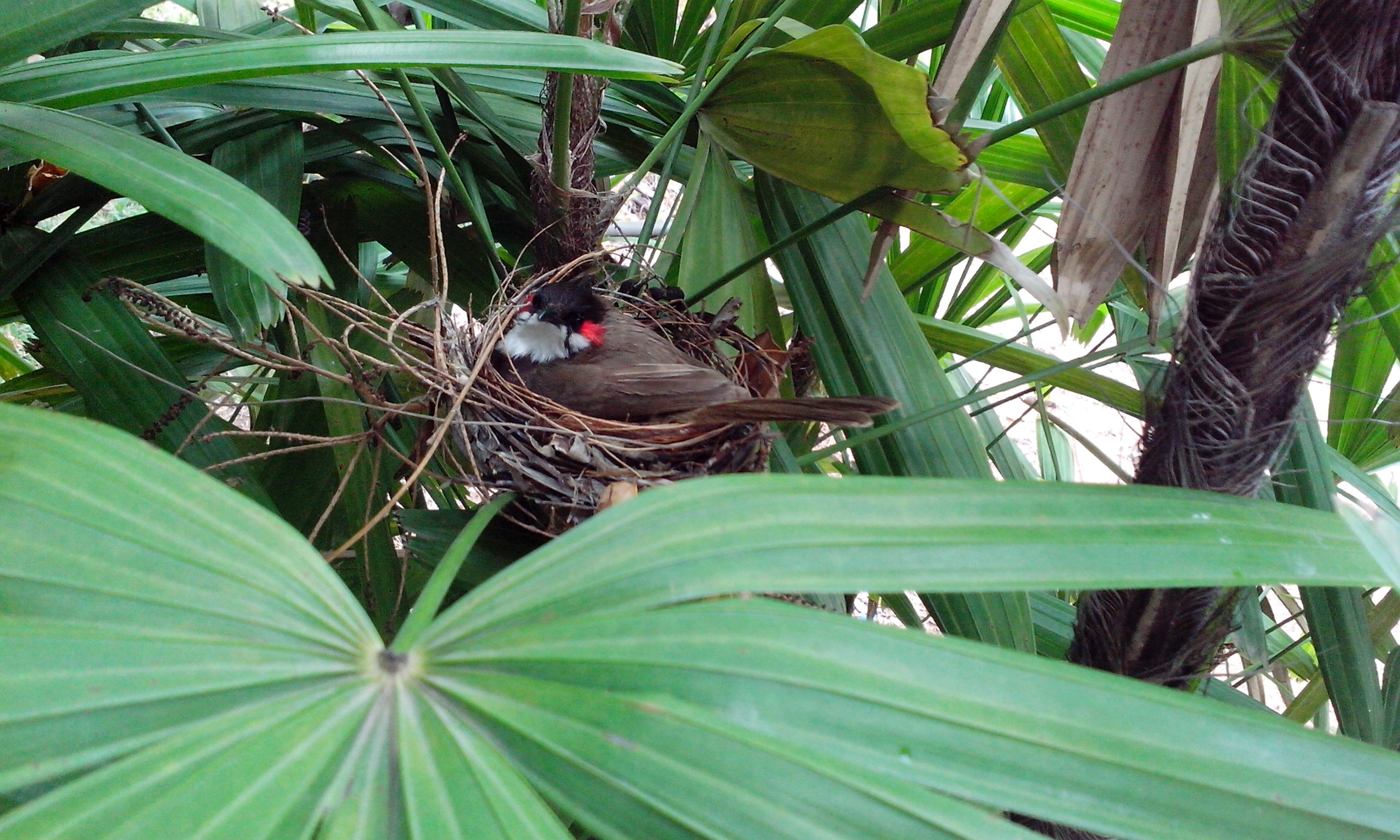 Nesting at Rishi Valley School